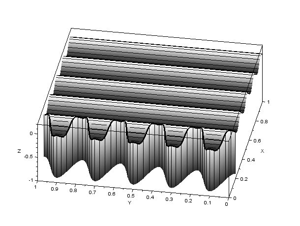 Intersection of two wavy surfaces, to illustrate the fact that the defects of both surfaces cumulate on the edge. The sinusoid waves represent the grooves due to a milling process.